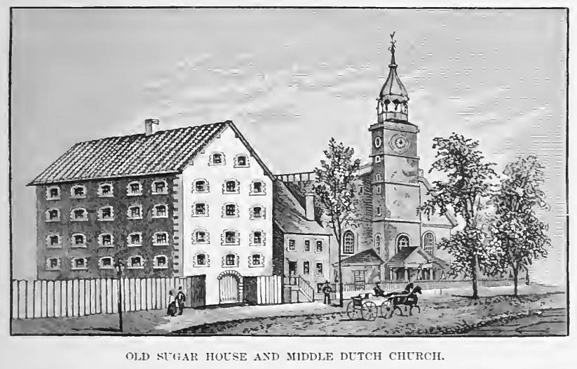 The Middle Dutch Church is where the enlisted men captured at the Battle of Long Island were imprisoned. The Livingston Sugar House also became a prison as the Redcoats captured more of Washington's soldiers during the retreat from New York. Image from 1830. The site today is the location of 28 Liberty Street, formerly known as One Chase Manhattan Plaza.